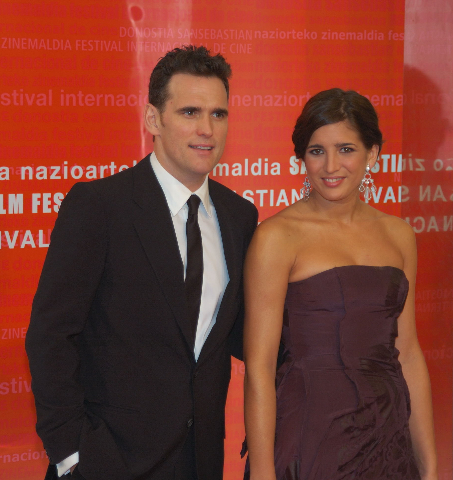 Matt Dillon and Lucía Jiménez in the San Sebastian International Film Festival